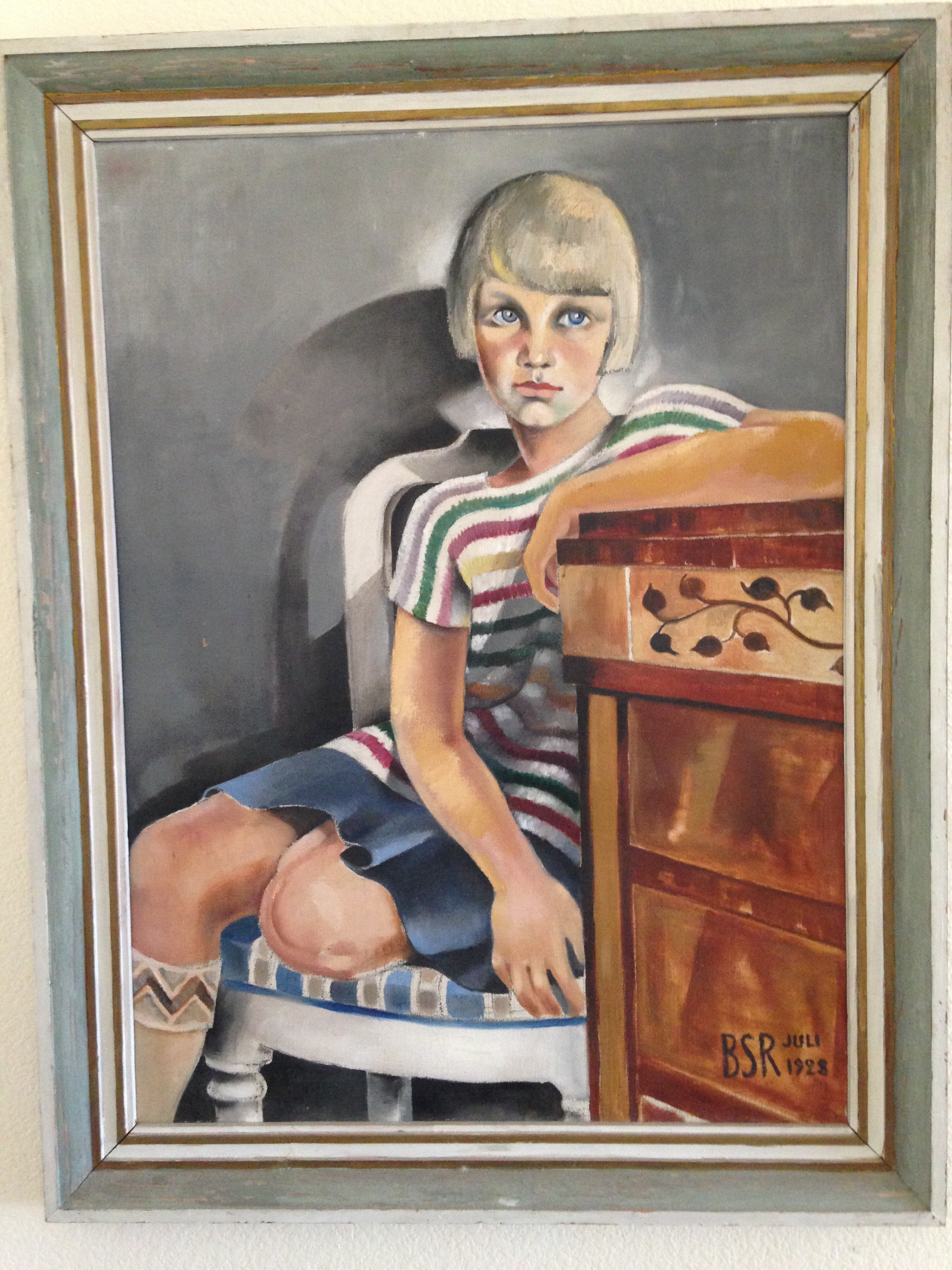 Portrait of the niece Britt-Marianne Oehman, July 1928